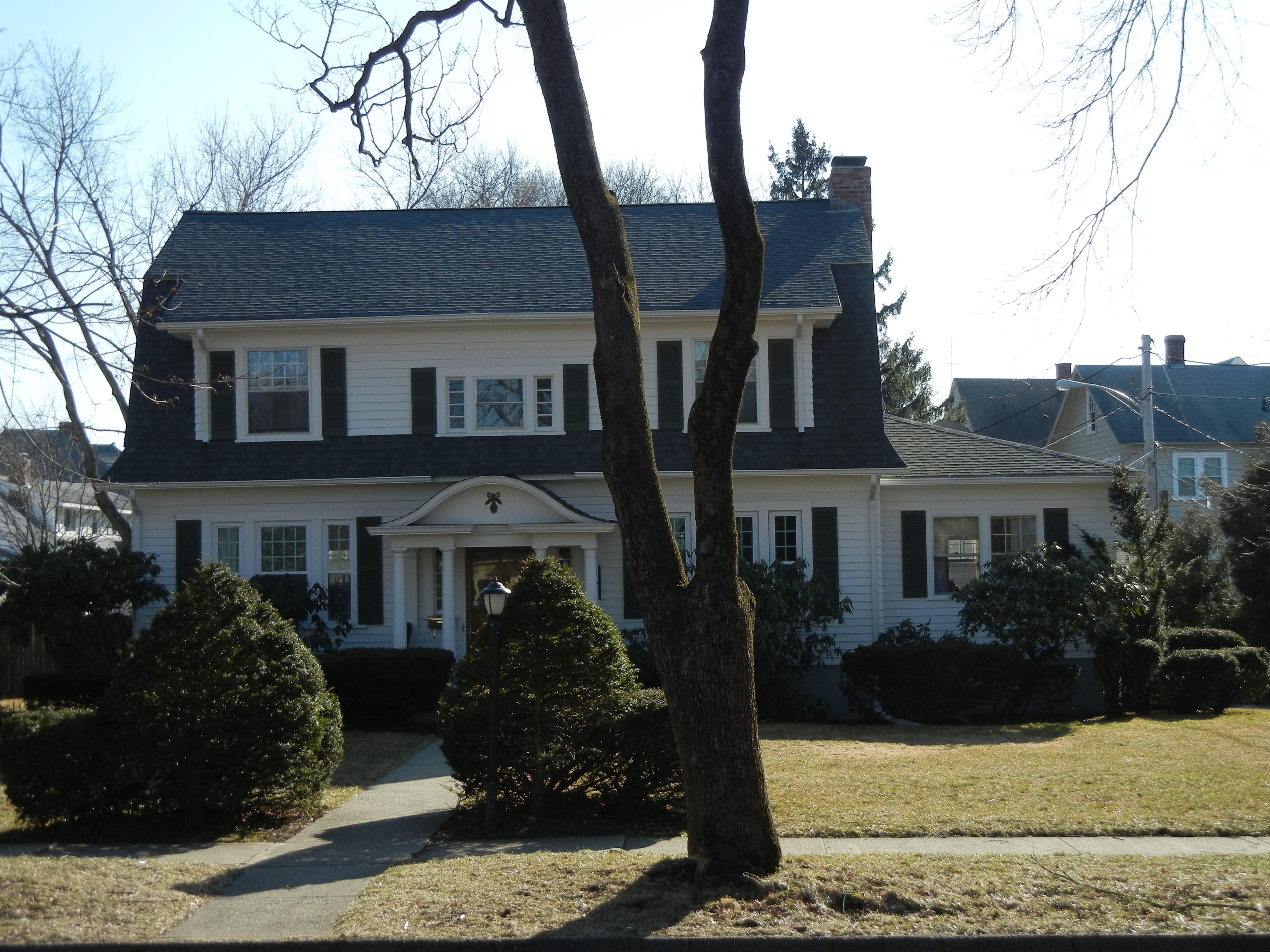 22 Suburban Road in Worcester, Massachusetts, USA. Home of Temple Emanuel 1922-1924